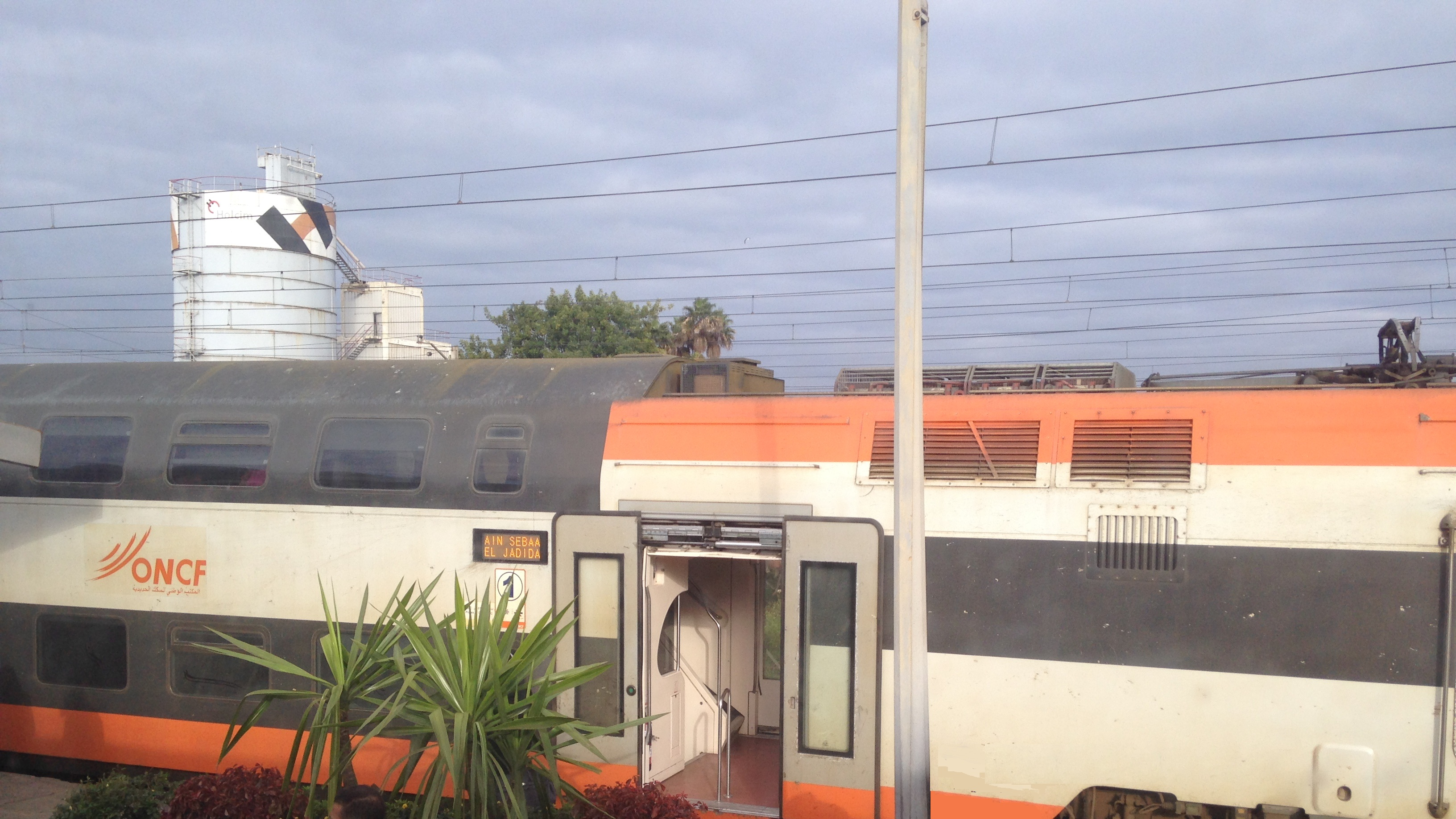 TNR Train between Casablanca and El Jadida - In Ain Sbaa Station